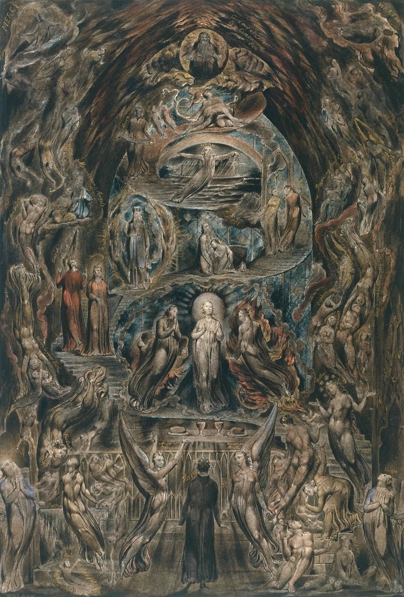 William Blake Epitome of James Hervey’s ‘Meditations among the Tombs 1820-25